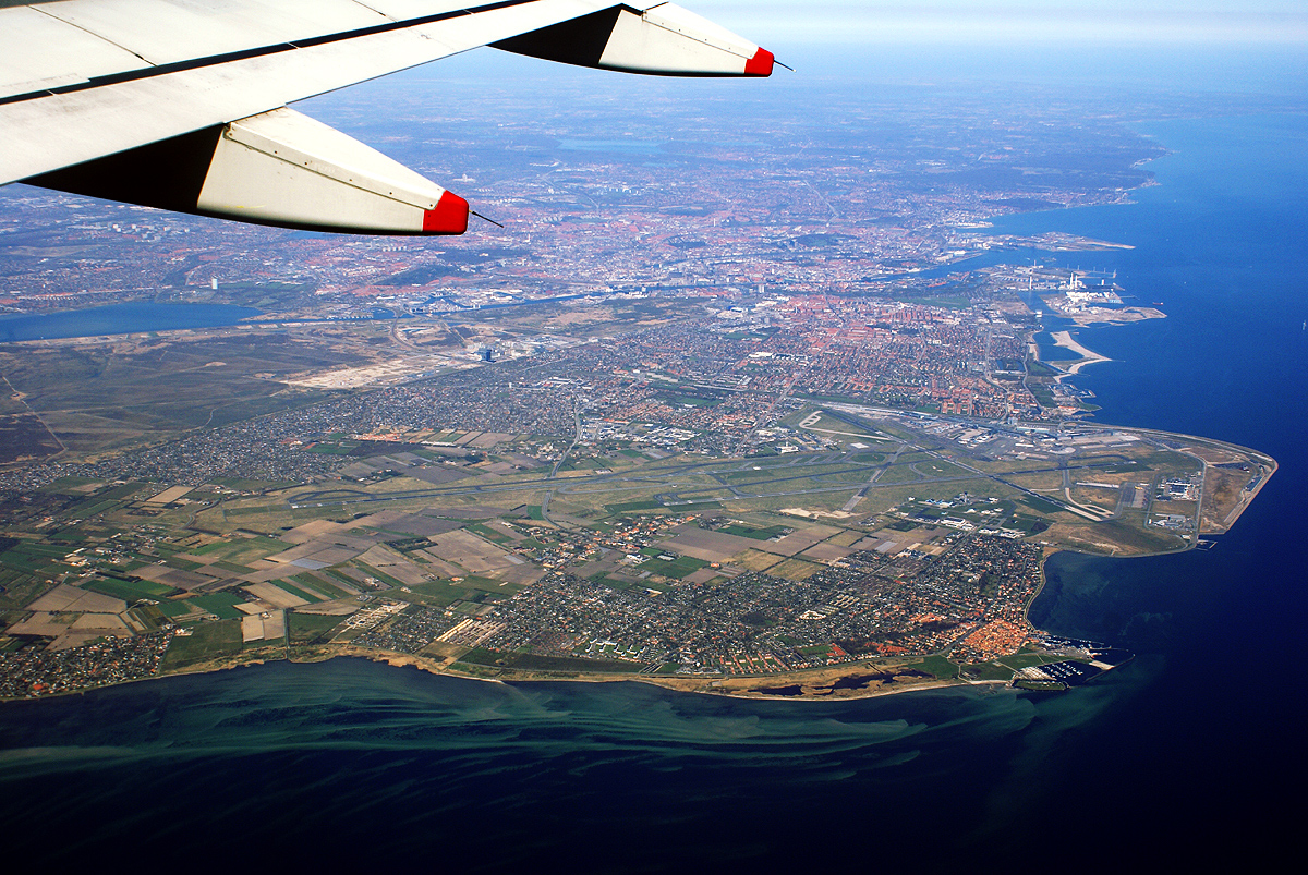 Photo from the air of Copenhagen Airport